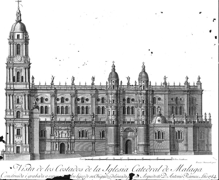 Vista de los costados de la Catedral, s XVIII (Fco. Montaner)